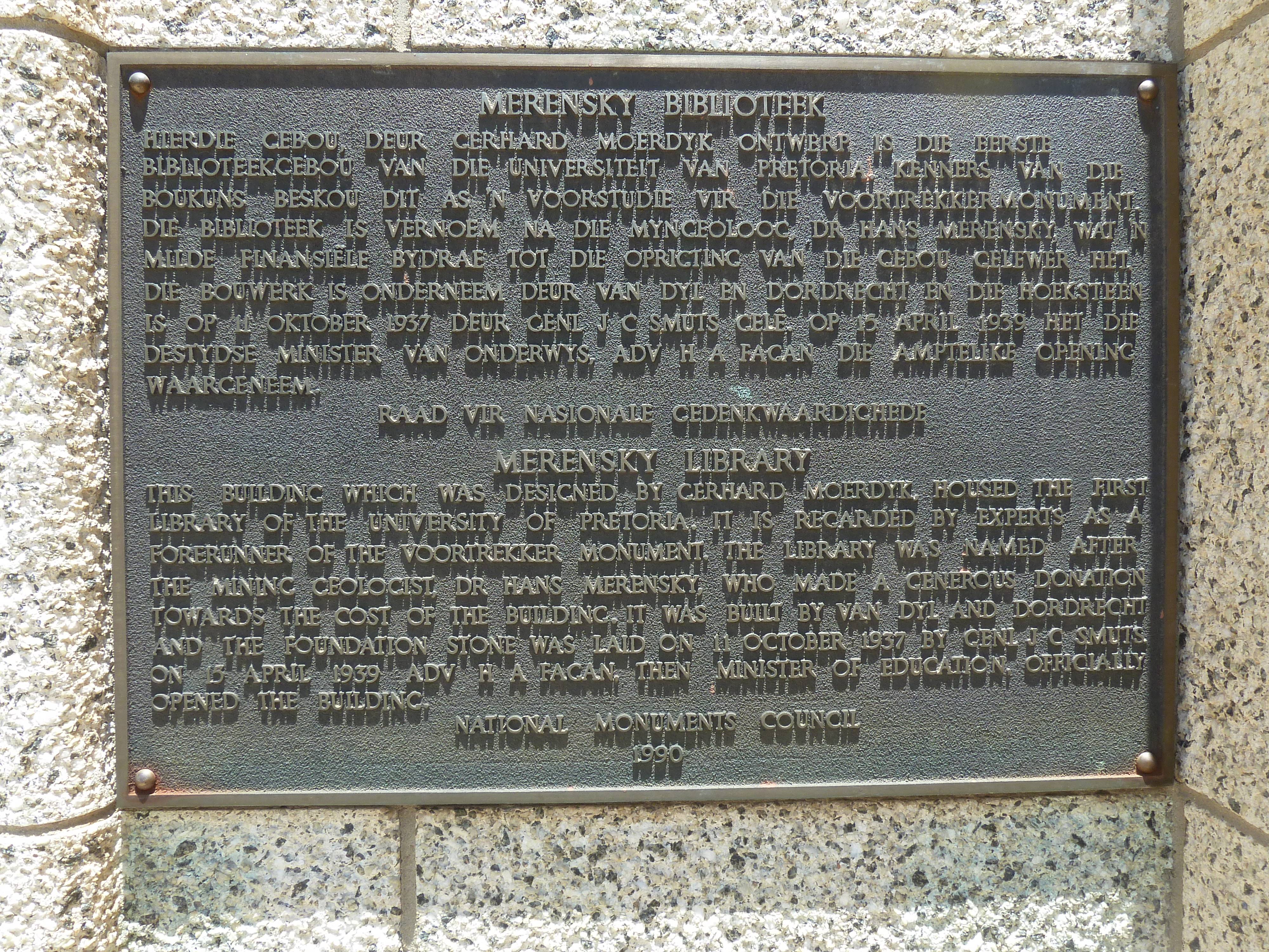 Heritage plaque on the Old Merensky Library at the University of Pretoria